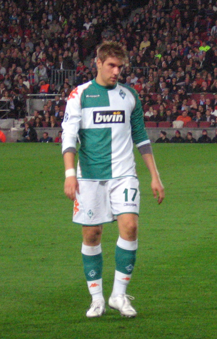 Ivan Klasnić, SV Werder Bremen's player, during the match FC Barcelona-SV Werder Bremen.